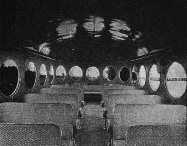 Interior of a McKeen rail motor car